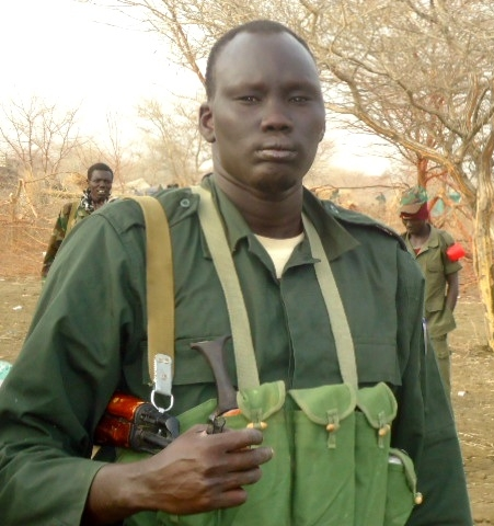 David Yau Yau, photographed during his time as insurgent leader in Jonglei.